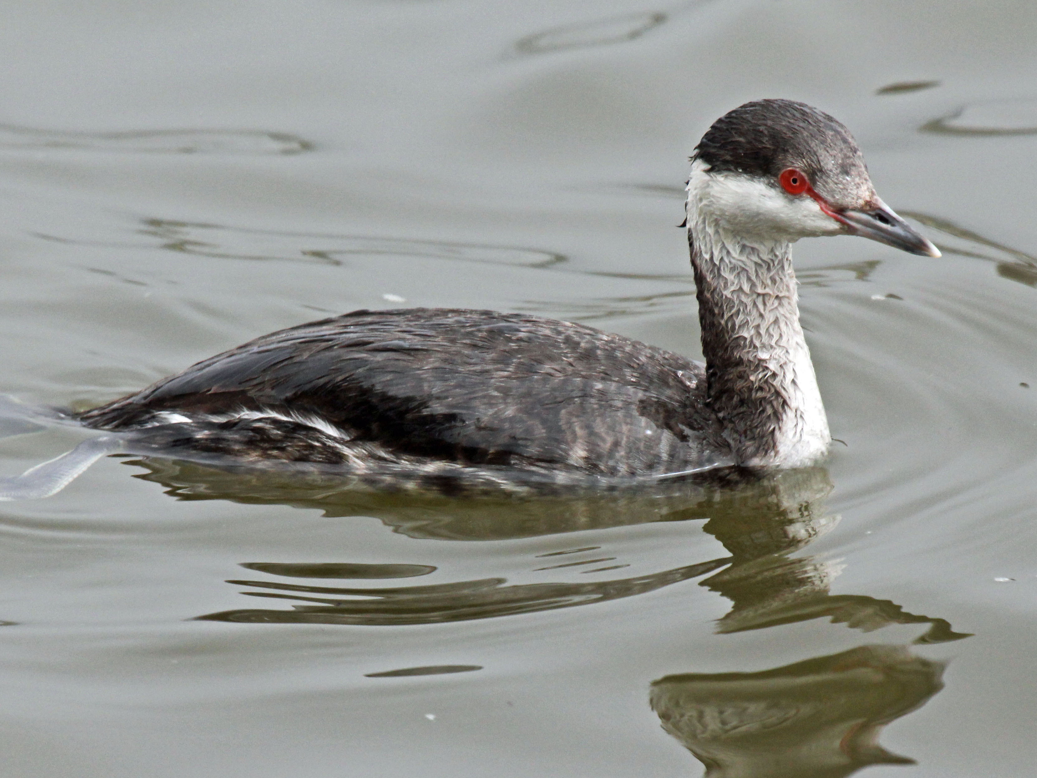 Horned Grebe (Podiceps auritus) - Biloxi, Mississippi